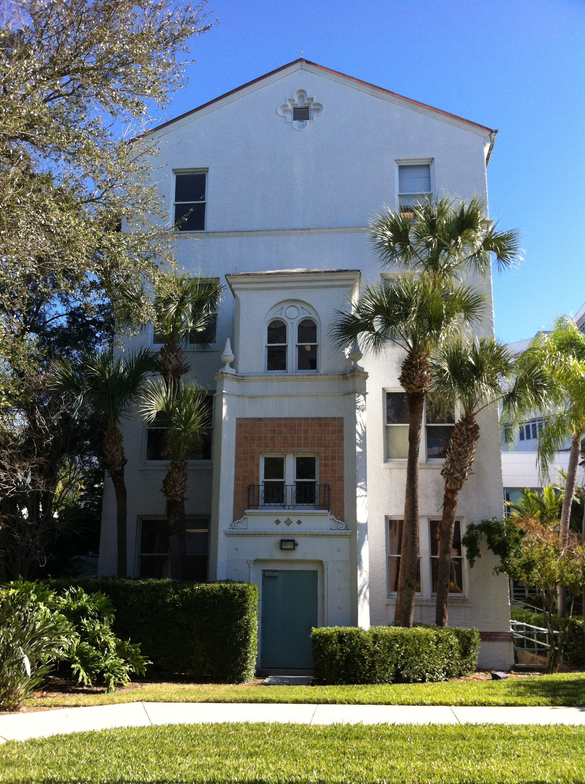 Original building of Mound Park Hospital, now part of Bayfront Medical Center in St. Petersburg, FL